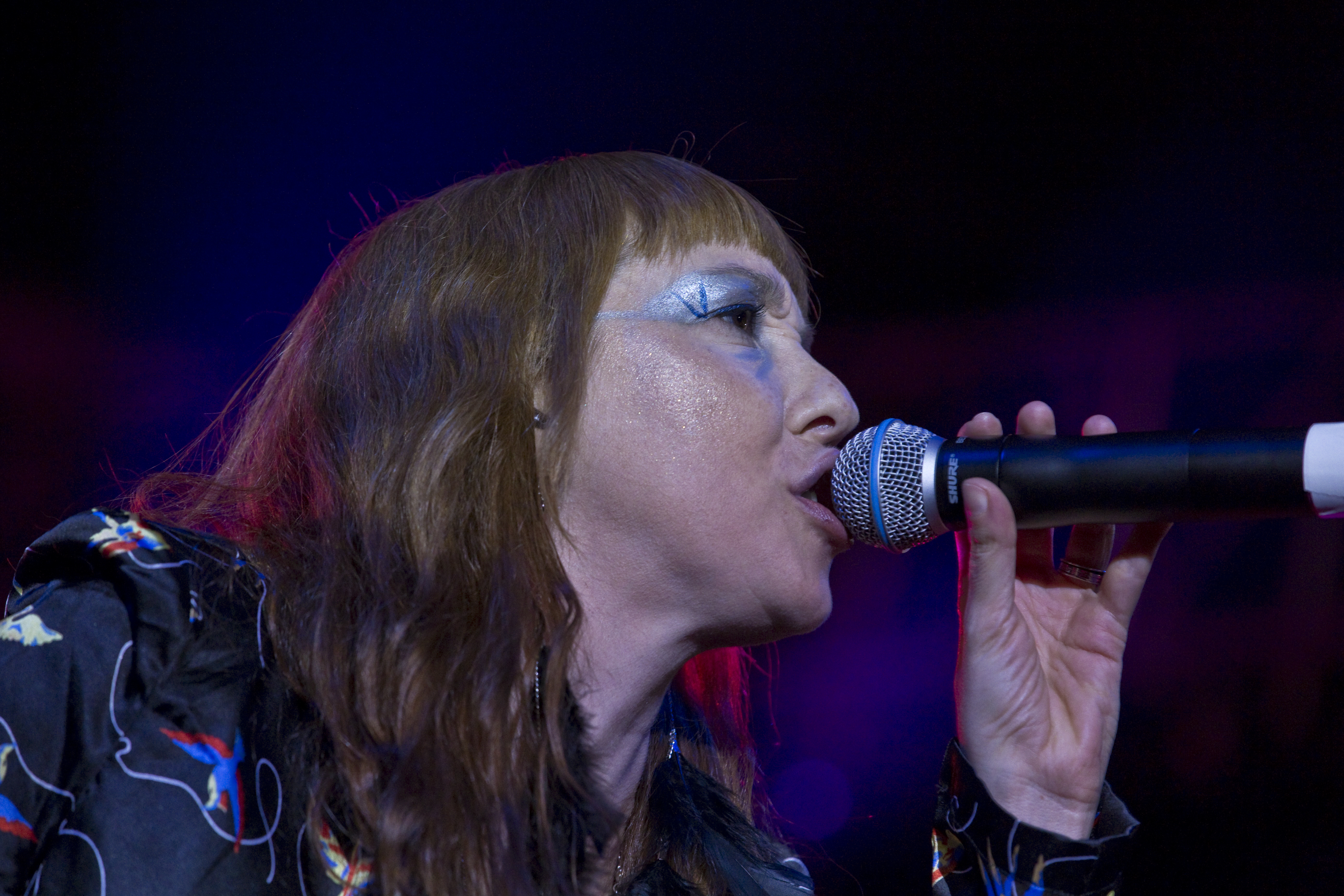 Natalia Clavier with Thievery Corporation.